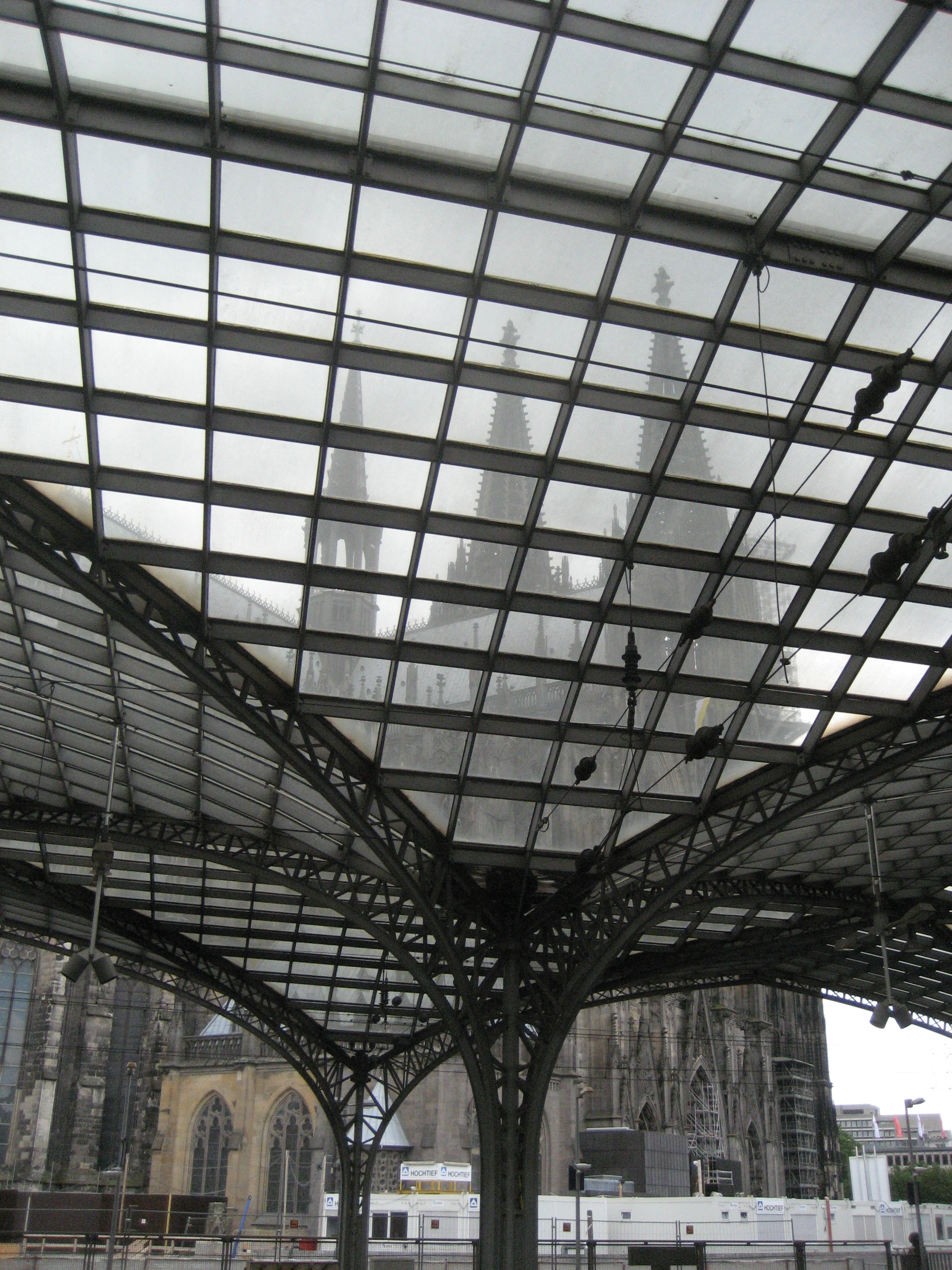 Railway Station Cologne - Dom visible through the rooftop